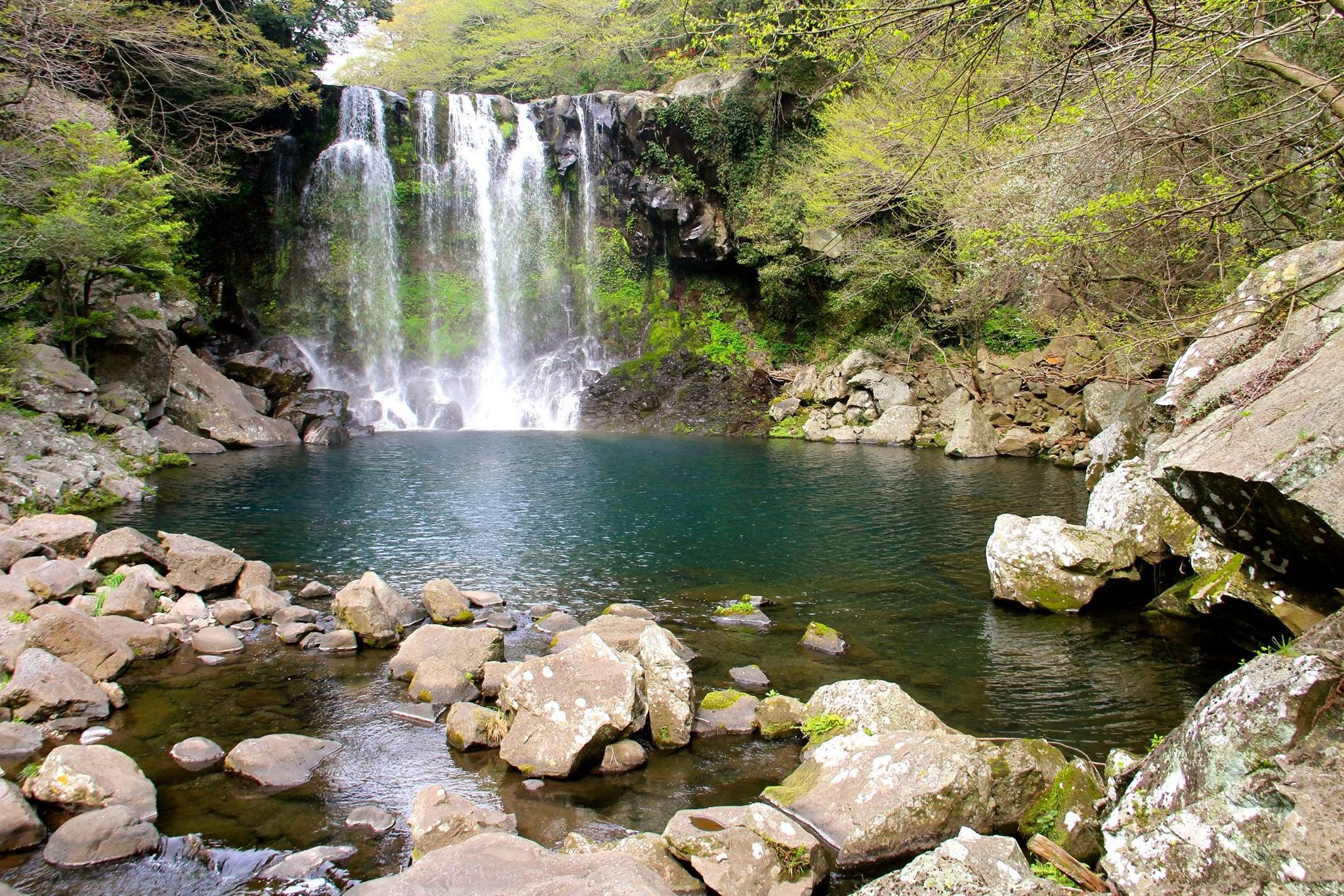 The second part of the Chunjeyeon Waterfall- known as the "Pond of Emperor of Heaven", where the water comes from a first set of waterfalls from a cave in the east. The falls eventually flow out into the sea.